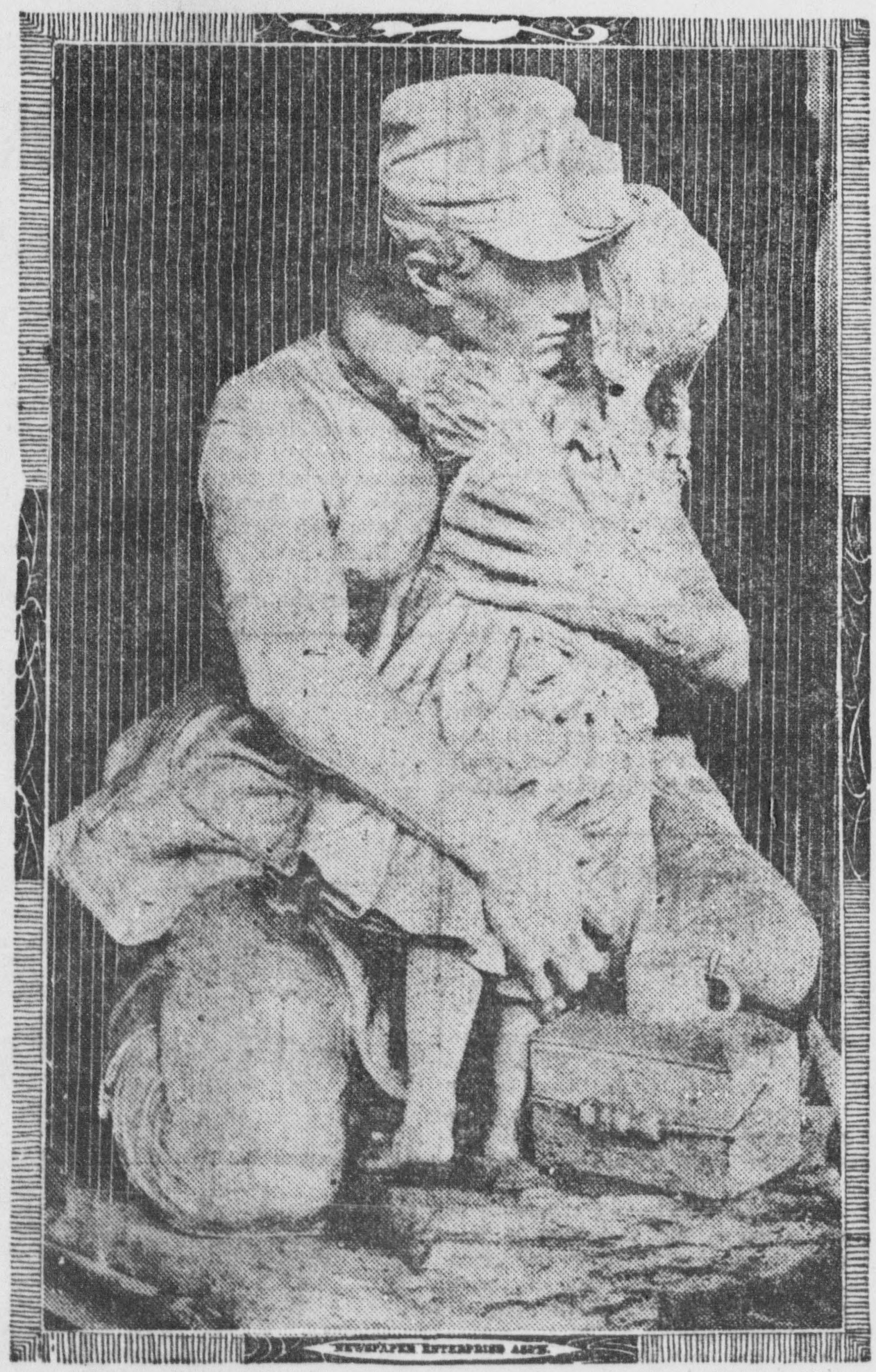 in 1904, Charles J. Mulligan's statue of a coal miner embracing his daughter after a long day at work was featured at the Louisiana Purchase Exposition